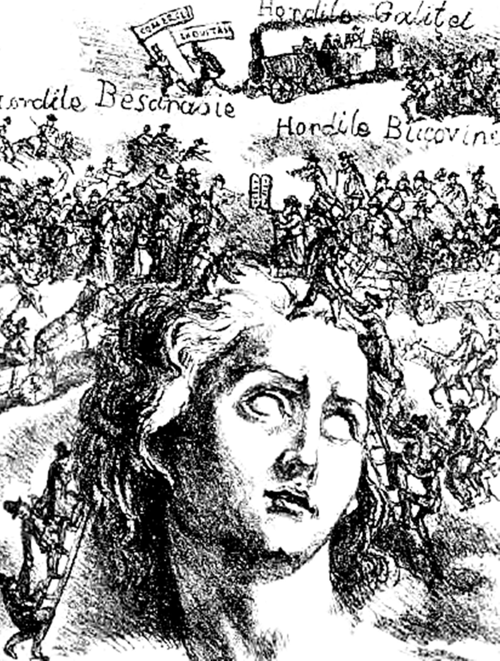 ROMANIA cotropita de Evreĭ și Strainĭ ("ROMANIA overrun by the Jews and the Foreigners"), antisemitic and protectionist lithograph in a Romanian almanac (Almanahul de Învățătură). Reference to the supposedly tolerant immigration law, accused on having encouraged the infiltration of Russian and Austro-Hungarian Jews, and of various peoples from the Balkans. Romania as a giant head with feminine features, swarmed by "hordes" of Jews ("Bukovina Horde", "Bessarabia Horde", "Galicia Horde"). At the tip of her head, a Jewish crowd welcomed in by a Moses-like figure, holding up the Tables of the Law. The foreigners are shown holding up flags symbolizing their goals: COMERCIŬ and INDUSTRIA ("COMMERCE" and "INDUSTRY").